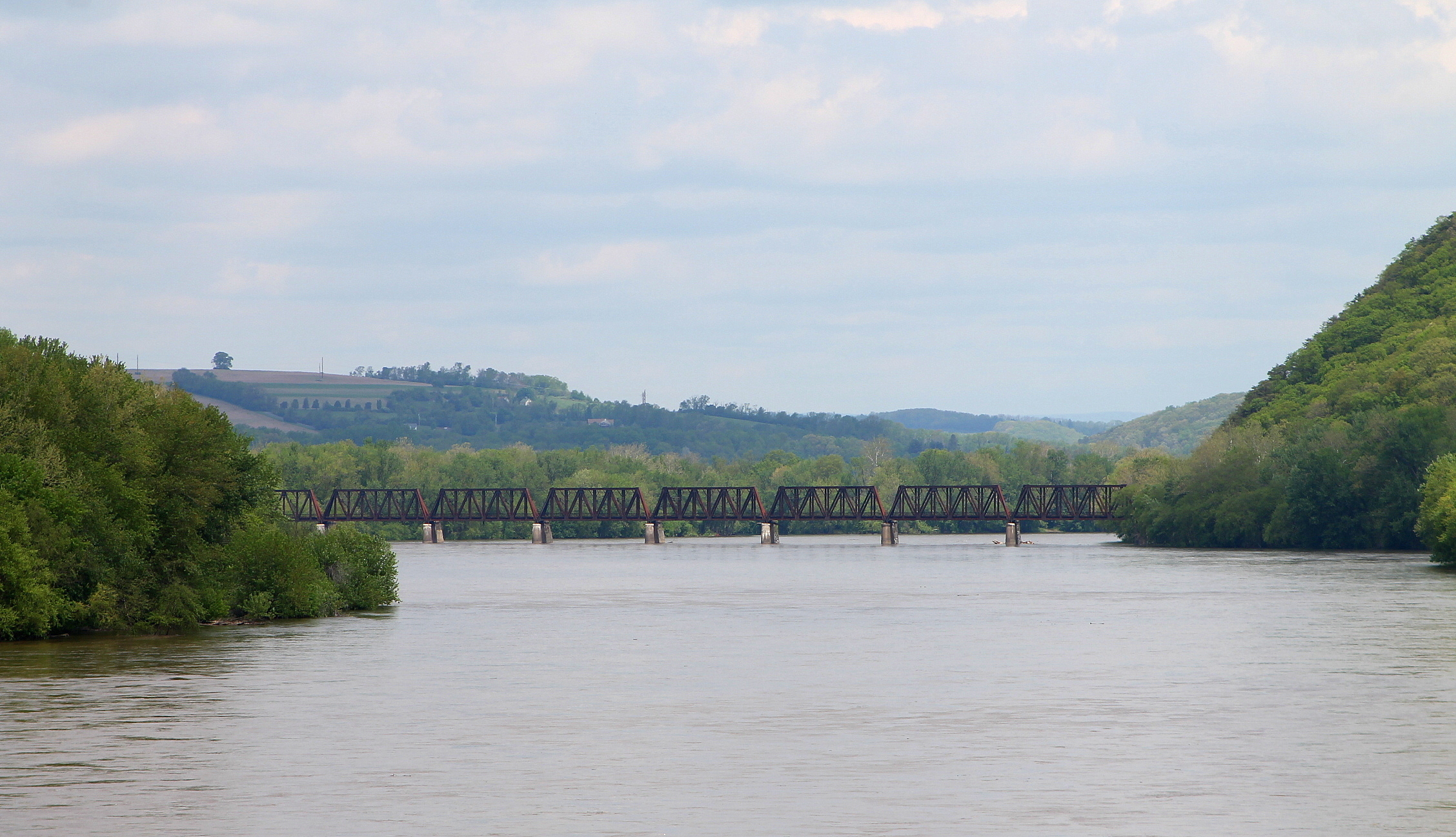 Conrail railroad bridge over the Susquehanna River north of Catawissa, near Bloomsburg